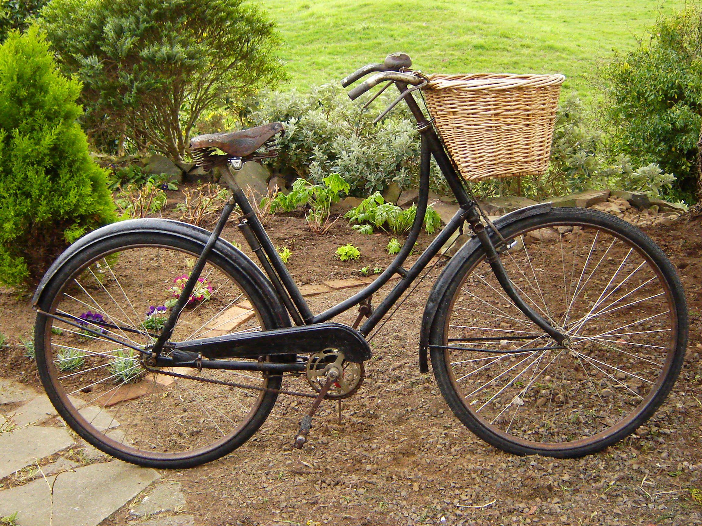 1929 Ladies Raleigh